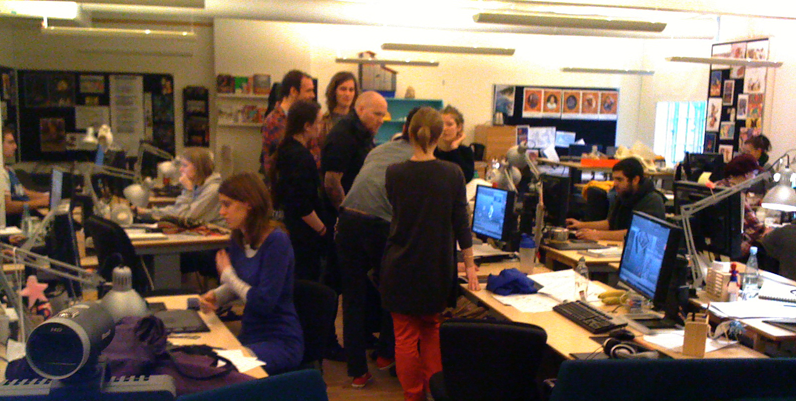 Animation class at the Animation Workshop, Viborg